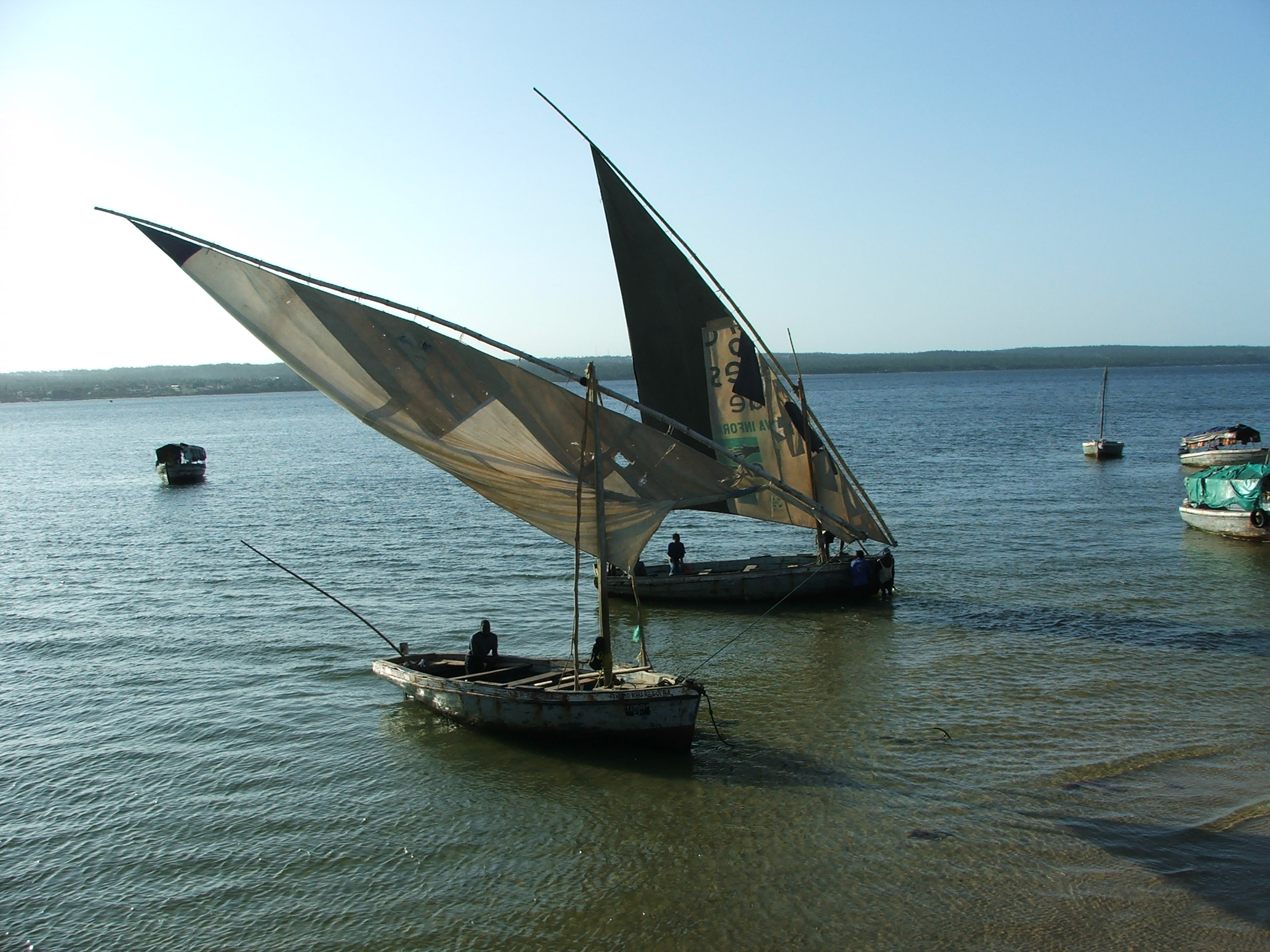 Port with dhaws in Inhambane, Mozambique.